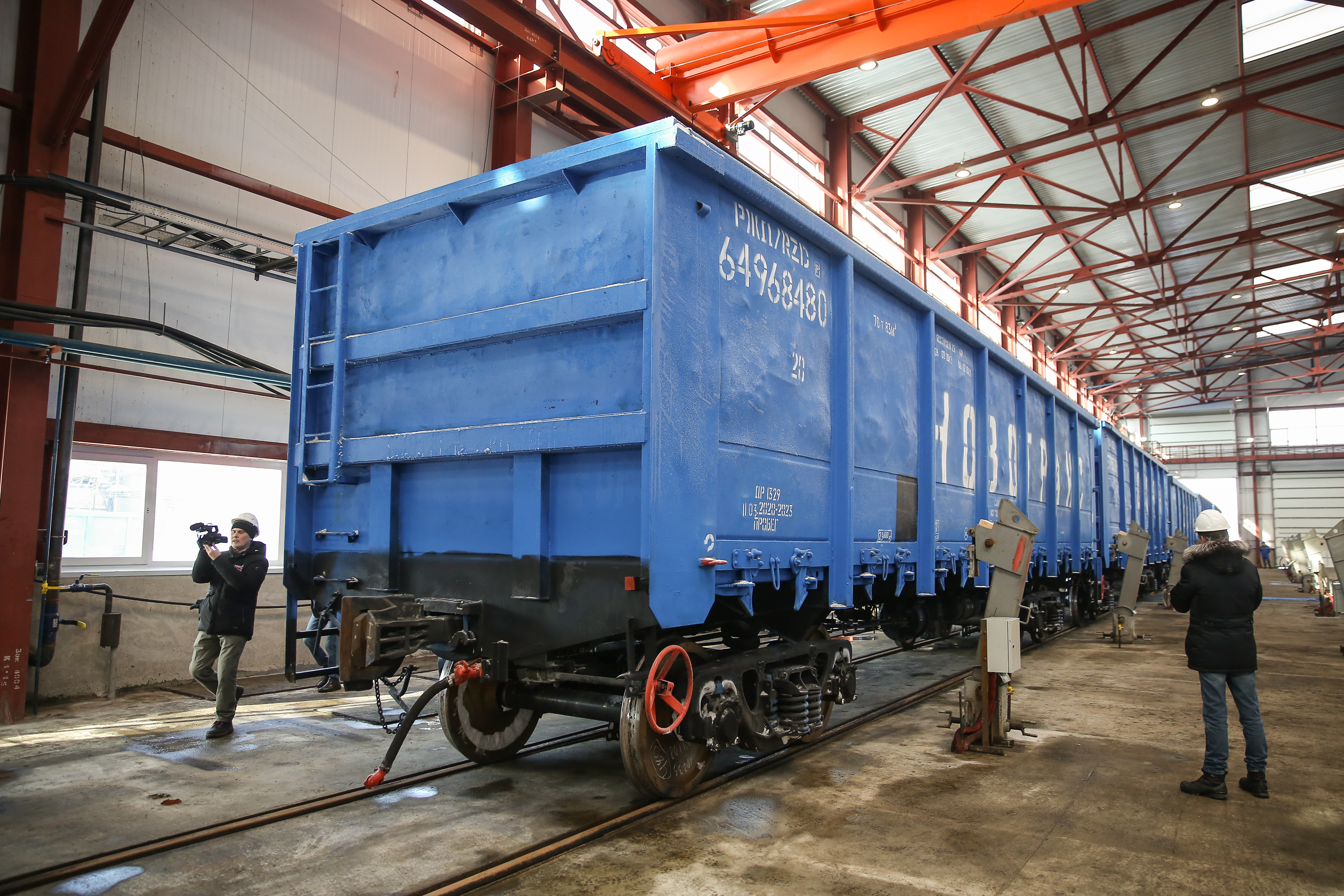 Novotrans KVRP